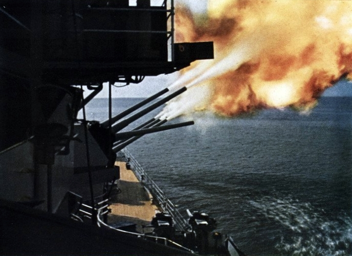 The U.S. Navy heavy cruiser USS Toledo (CA-133) firing its 20.3 cm guns, in 1959.